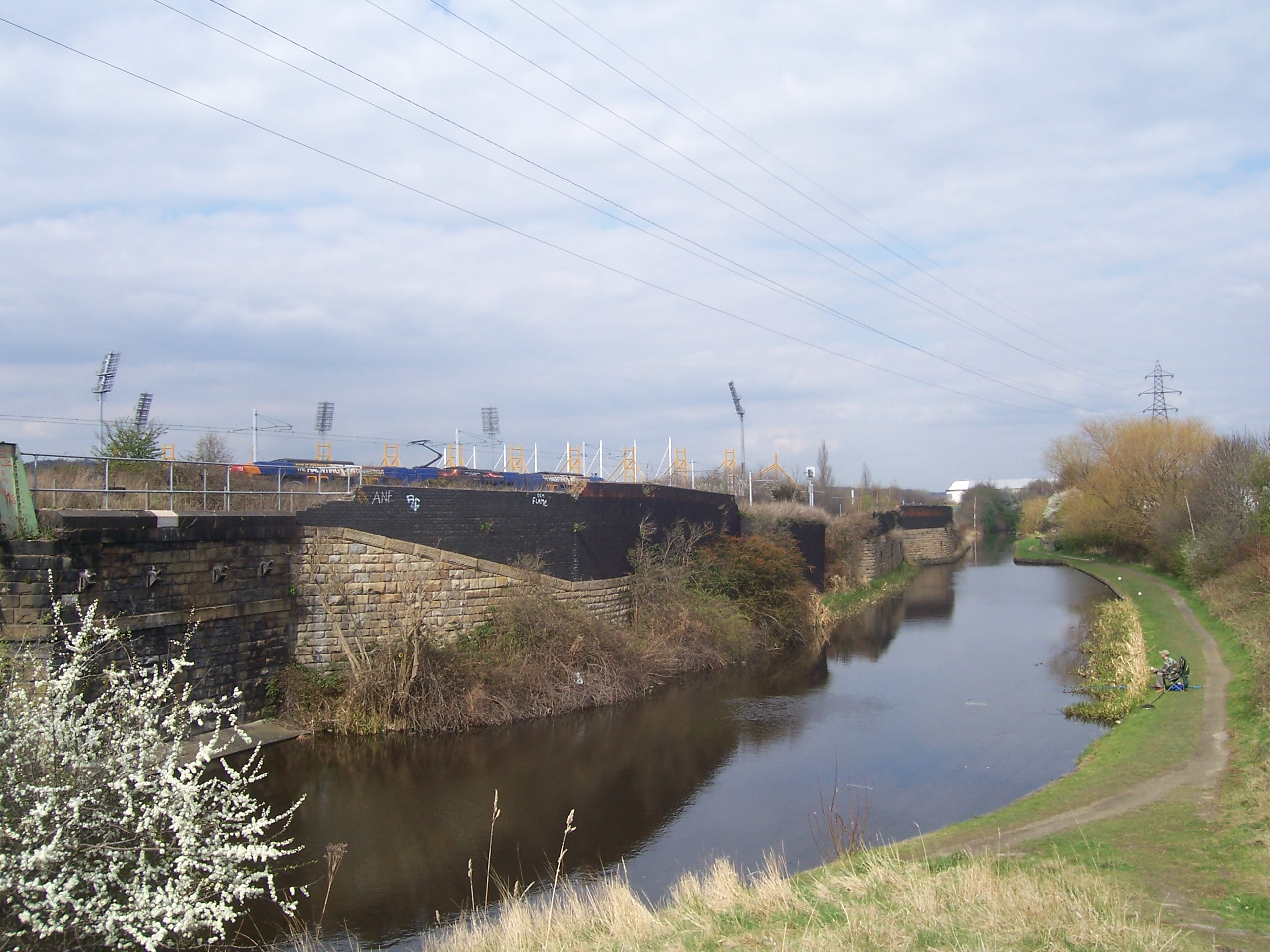 Attercliffe Station remains